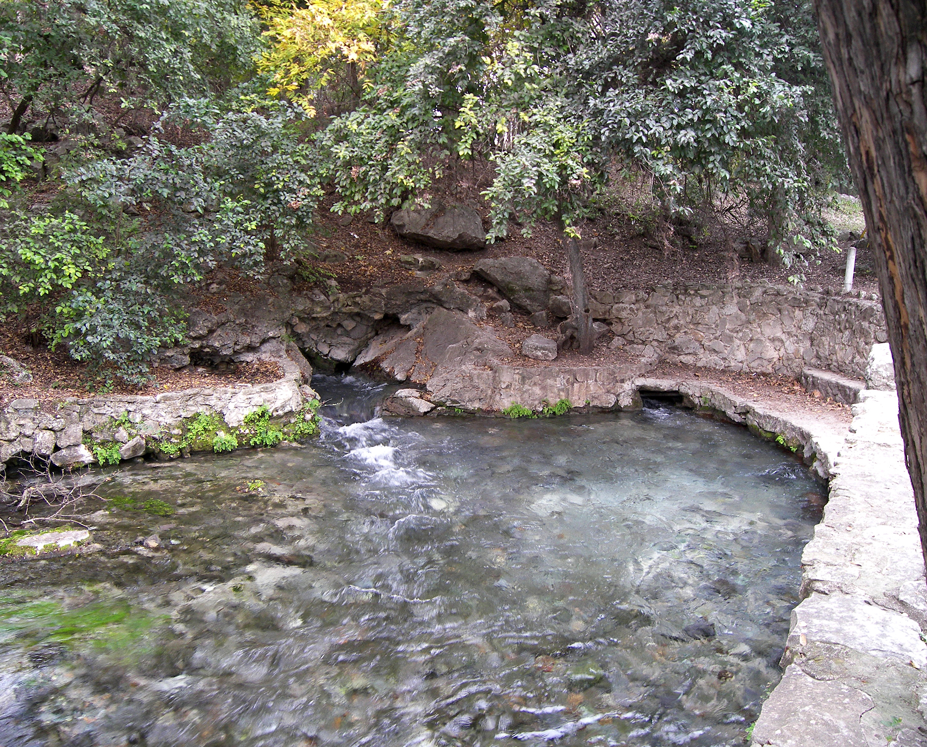 Comal Springs, located in Landa Park, New Braunfels, Texas, United States.